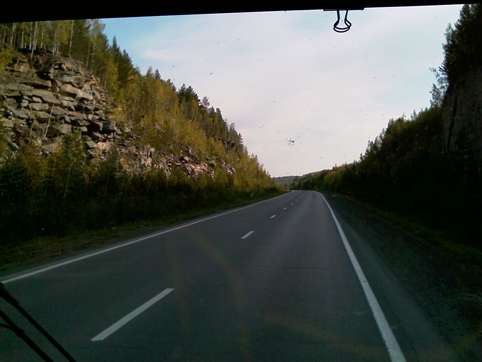 Nizhny Tagil — Ekaterinburg road (Р352 (автодорога))